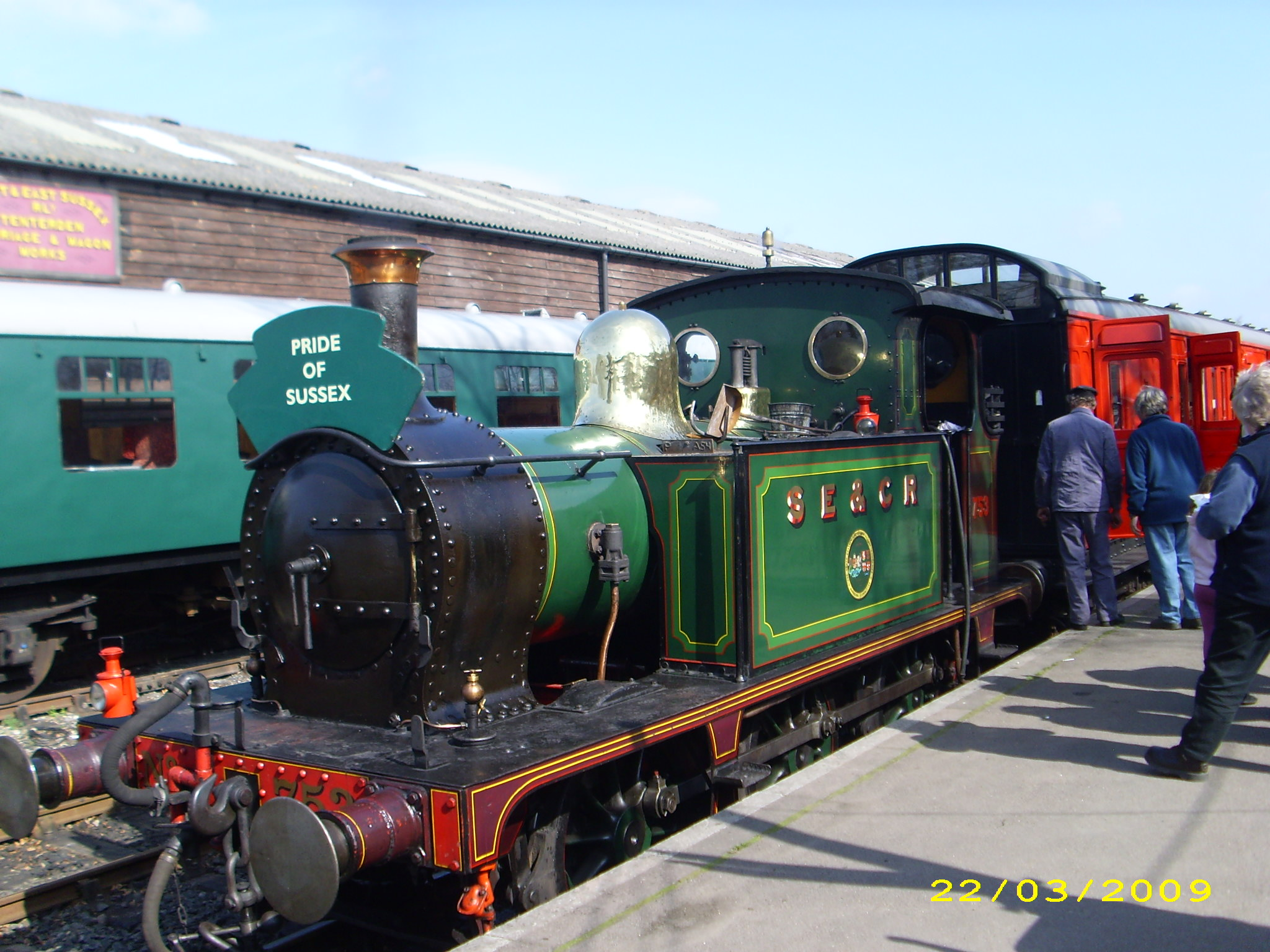 SECR P class loco No. 753 at Tenterden Town station, Kent and East Sussex Railway.